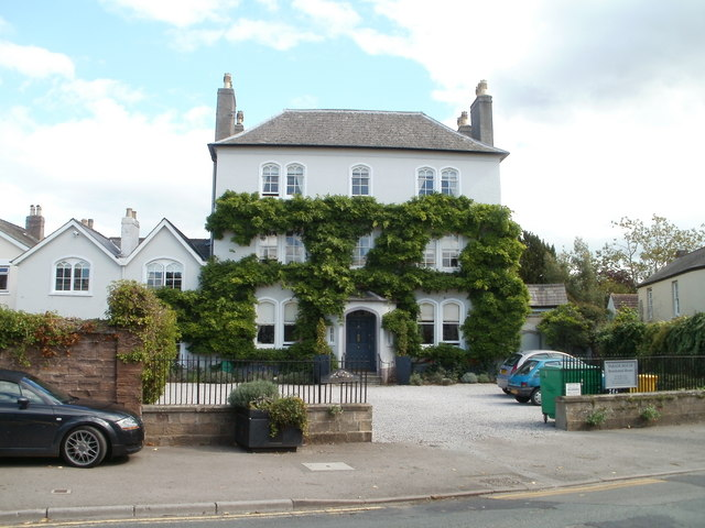 Parade House Residential Home, Monmouth